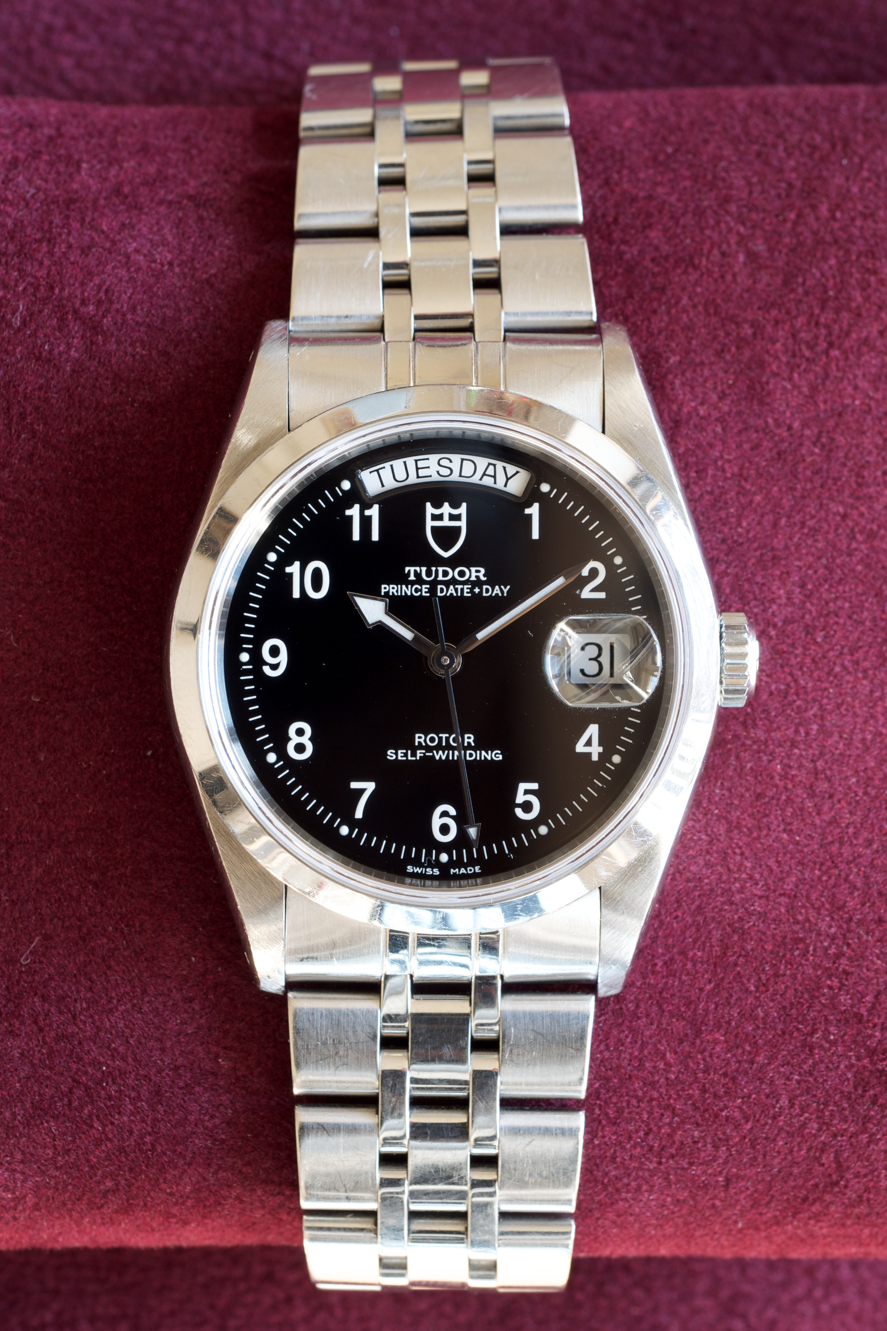 Wristwatch Tudor Prince Date Day, Ref.: 76200 & bracelet 62480